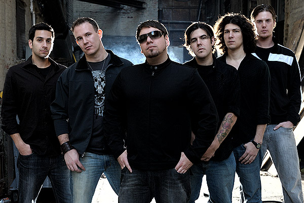 From left to right - Matt Litwin, Voley Martin, Marcus Klavan, Alex Straiter, Scott Martin, Jesse Downing Image copyright permission given by Photographer Taso Hountas (